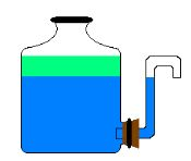 Florentine flask to seperate oils that are lighter than water